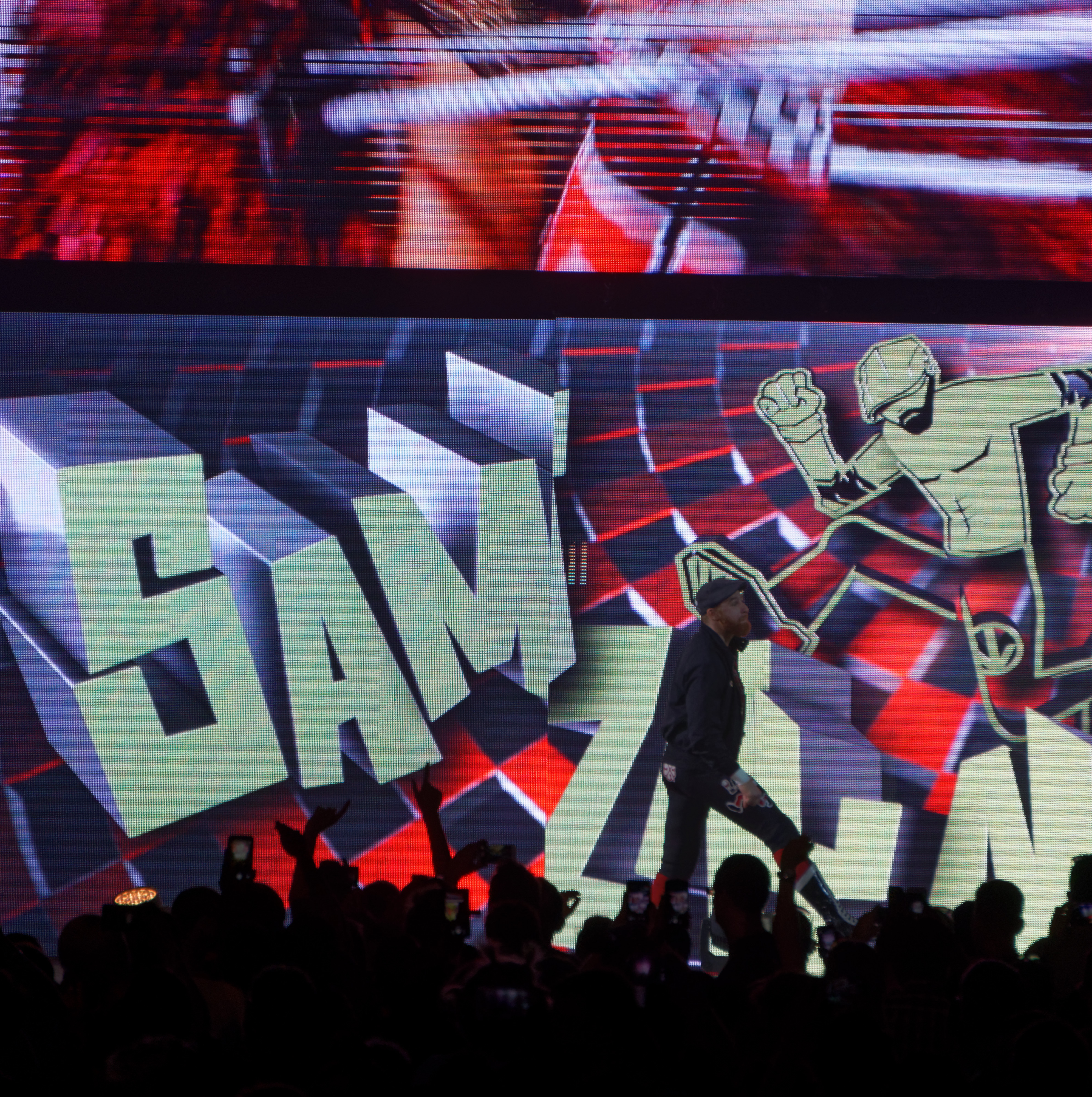 WWE Live returns to London this September Join Roman Reigns, Seth Rollins and more WWE Superstars at the 02 Arena for a one-night-only WWE Live in London on Wednesday, 7 Sept. Kevin Owens (c) def. (pin) Sami Zayn, Seth Rollins Type of match : 3-way Match For : WWE Universal Championship